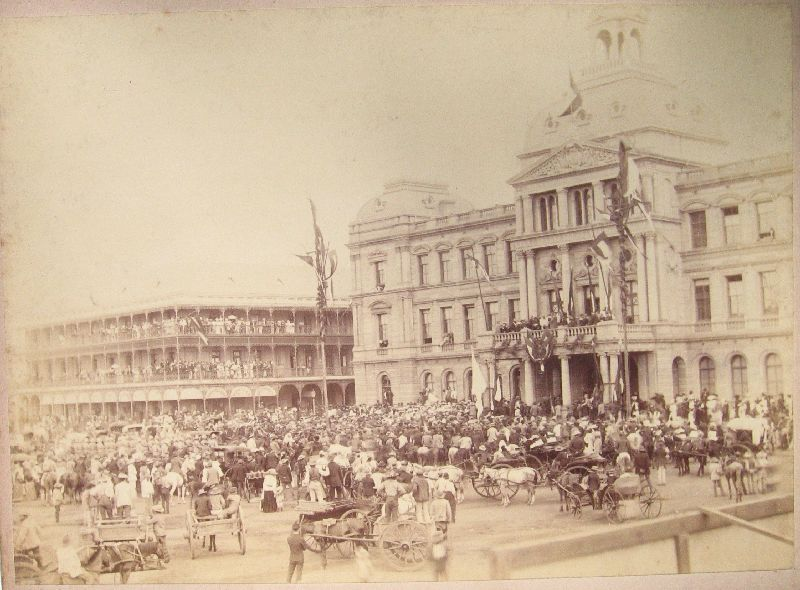 South africa - Transvaal - Pretoria - Old Raadsaal, Receiving the president Paulus Kruger(signed in the back: Pretoria, Empfang des Präsidenten)